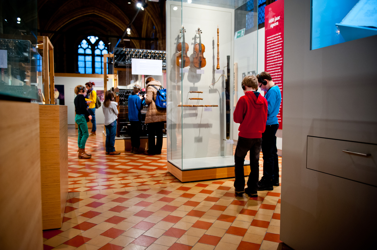 Interior of the Vleeshuis Museum